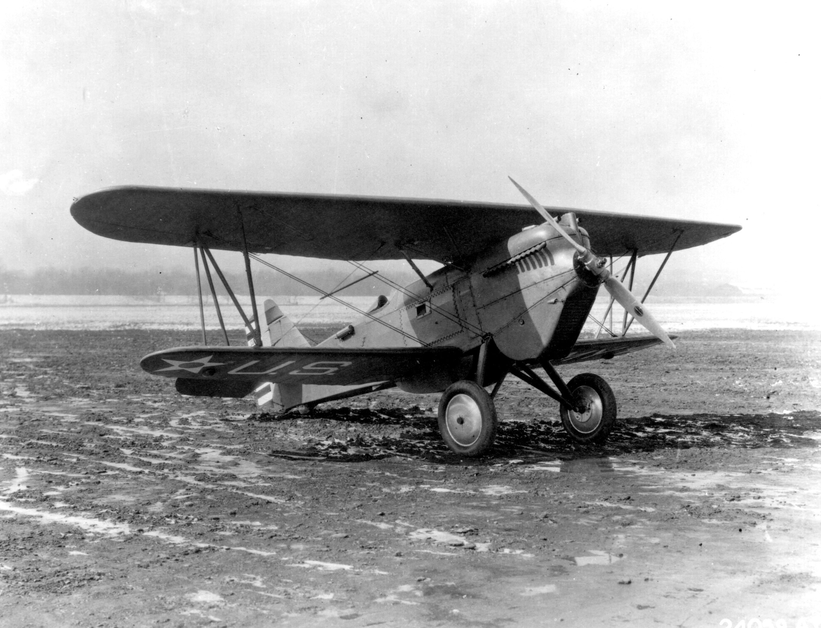 Curtiss P-1B Hawk. The Curtiss P-1 Hawk was the first US Army aircraft to be assigned the P (Pursuit) designation. The first production P-1, serial number 25-410, was delivered on 17 August, 1925.